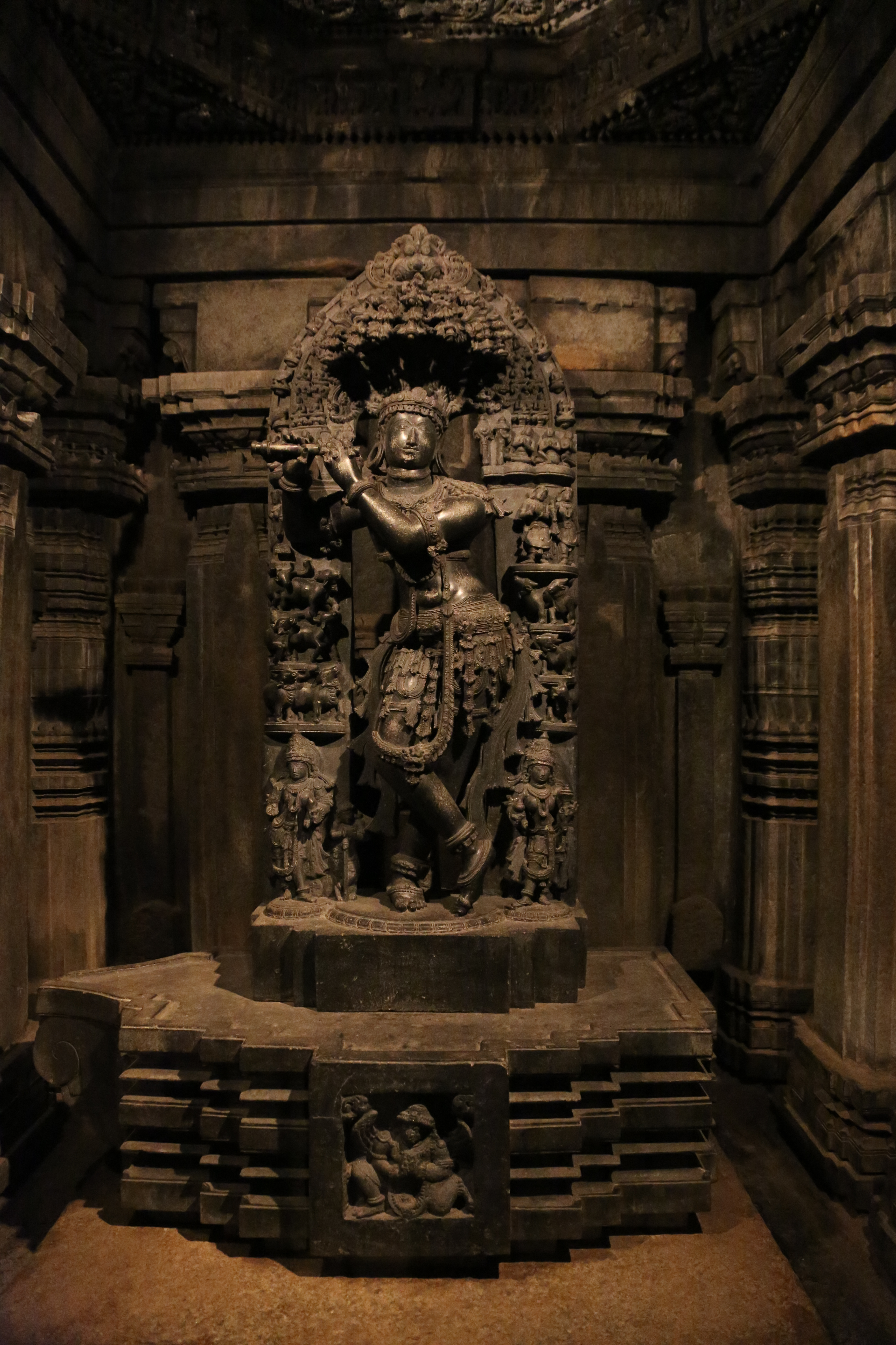 Sri Chennakesava Temple, Somanathapura, Karnataka